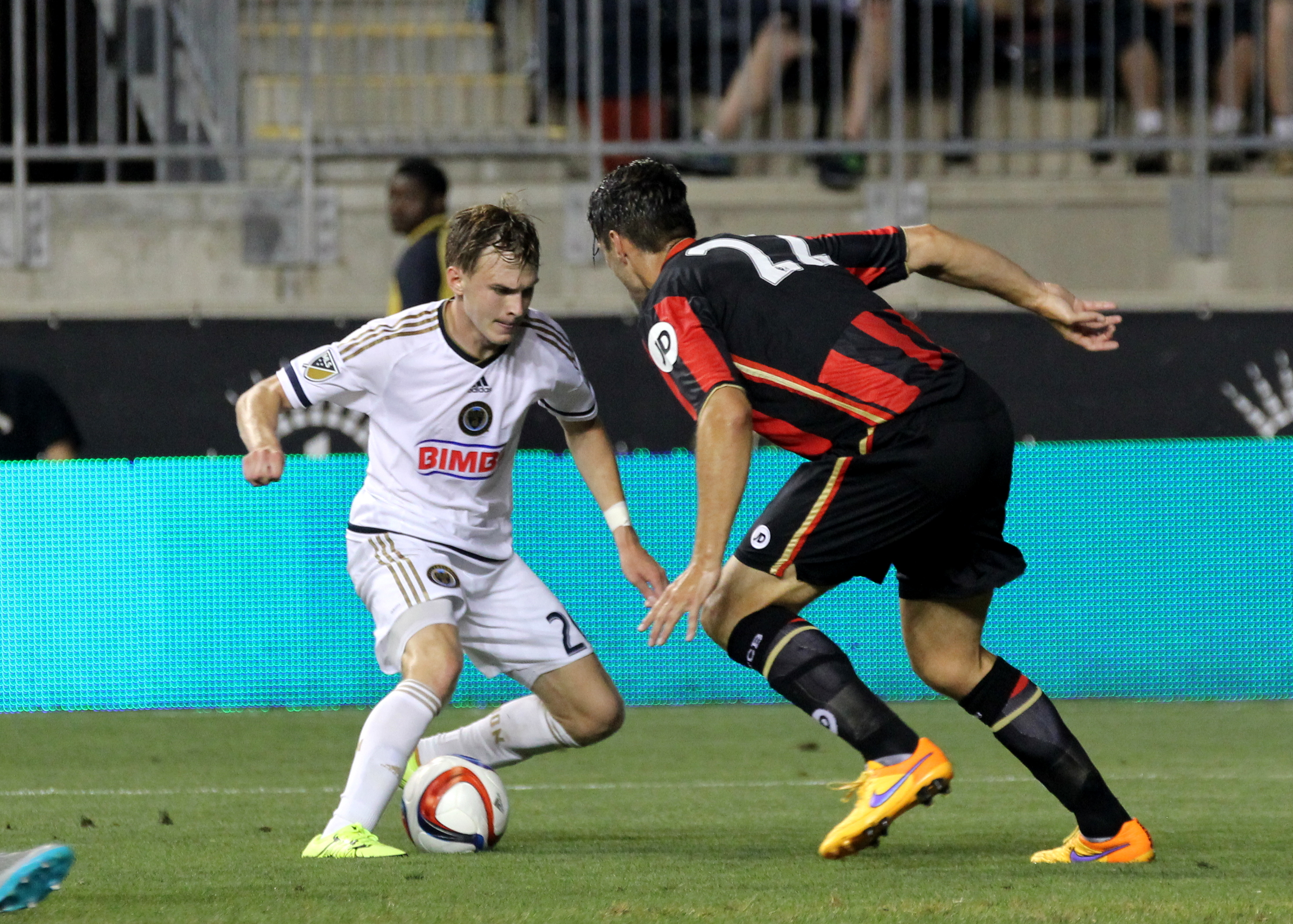 Midfielder Jimmy McLaughlin of Philadelphia Union gets defender Elliott Ward of AFC Bournemouth leaning the wrong way in a 2015 international friendly.